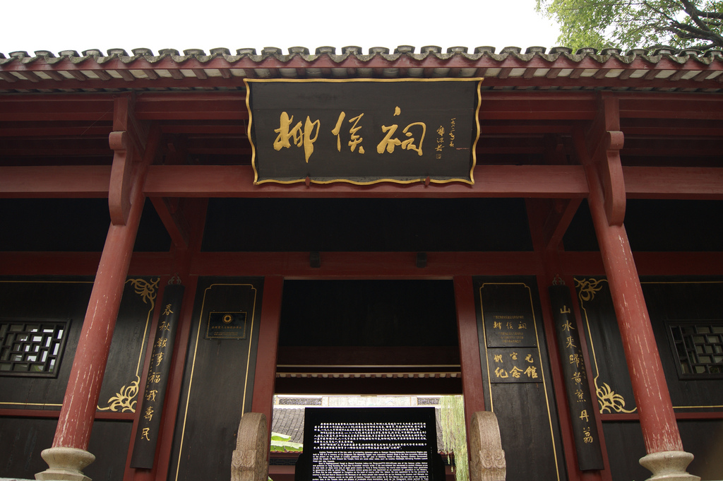 Ancestral Temple of the Marquis Liu at Liuzhou